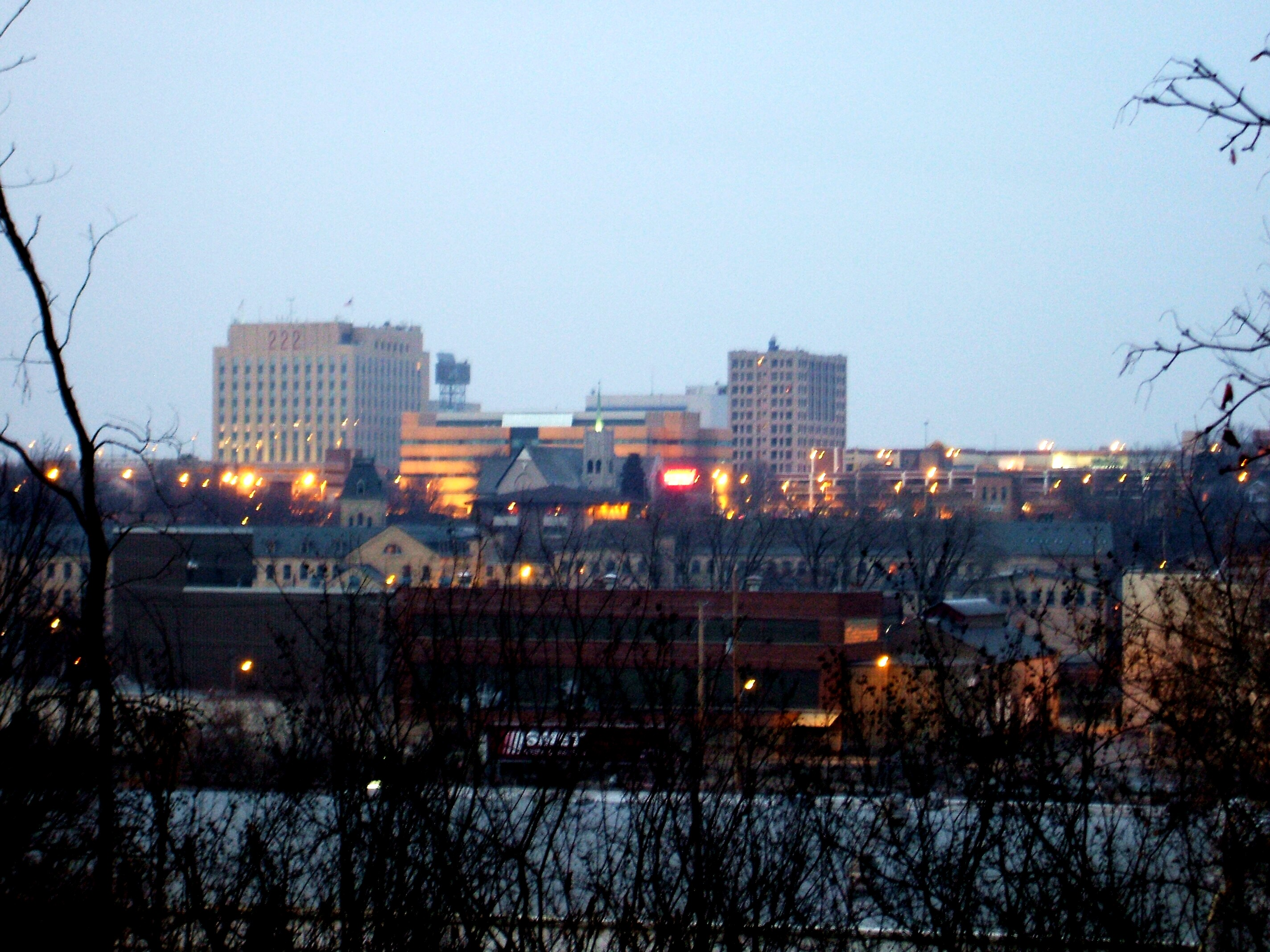 The skyline of Appleton, Wisconsin as seen from the south bank of the Fox River. Category:Images of Wisconsin